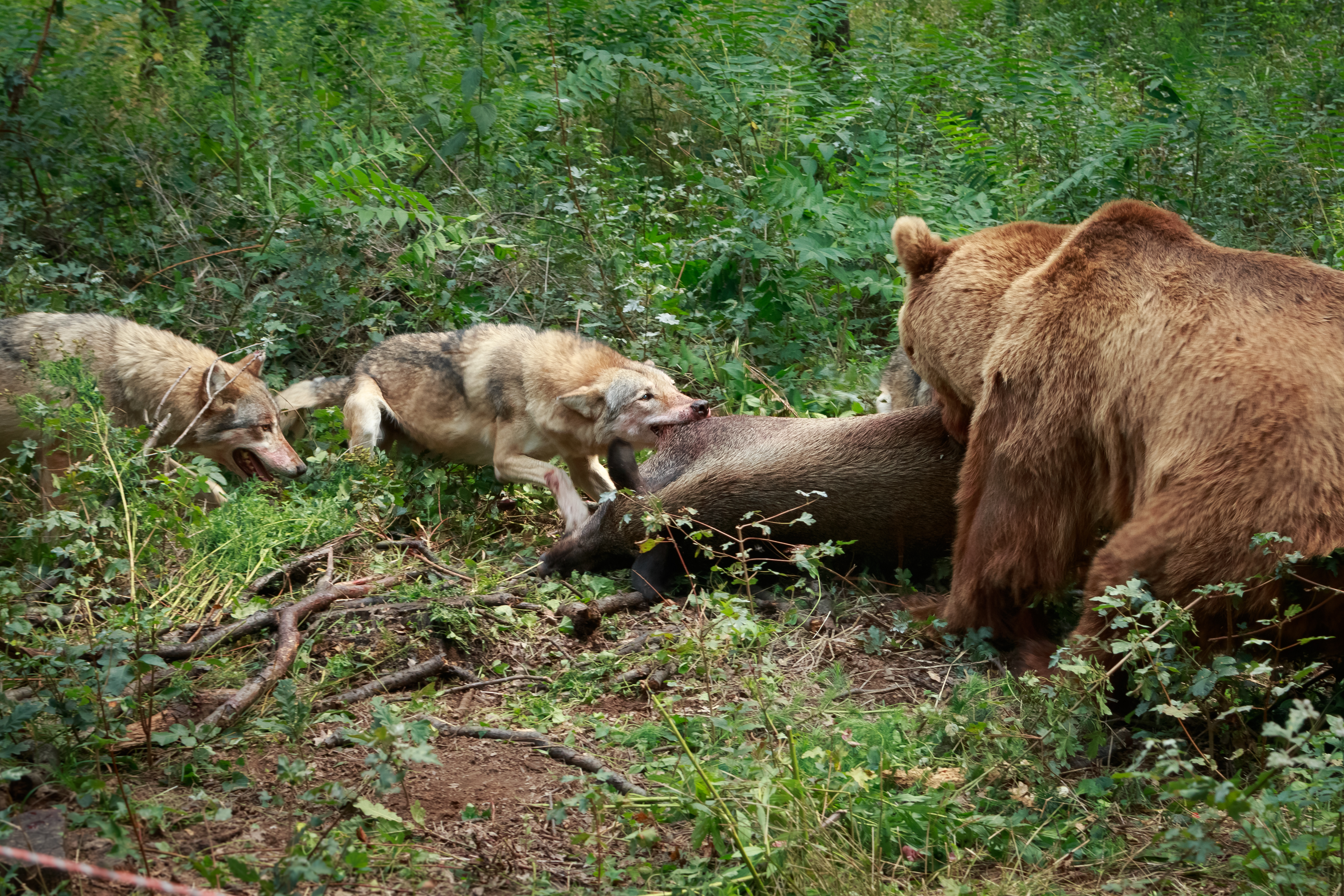 Wolves and brown bear feeding on boar carcass in Hungary